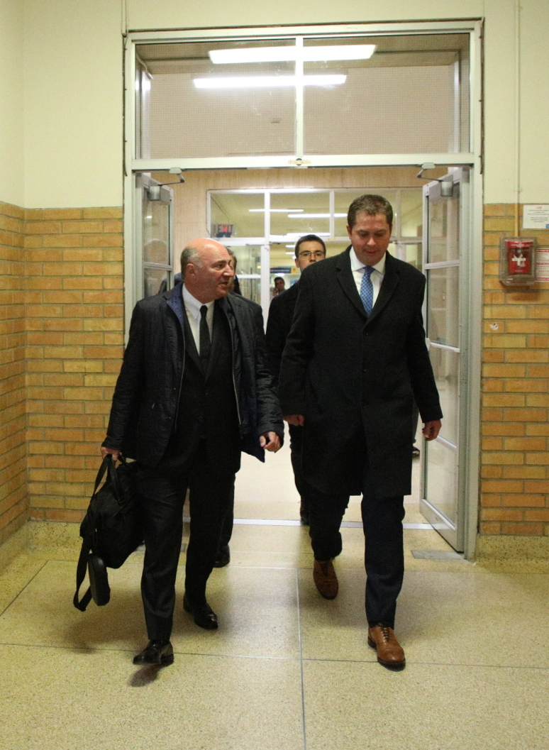 Excellent questions from Ryerson students tonight! They had great insight and questions on free speech, how we can unlock Canada’s potential, and my positive Conservative vision for Canada. If you missed it, watch the townhall on my Facebook page.